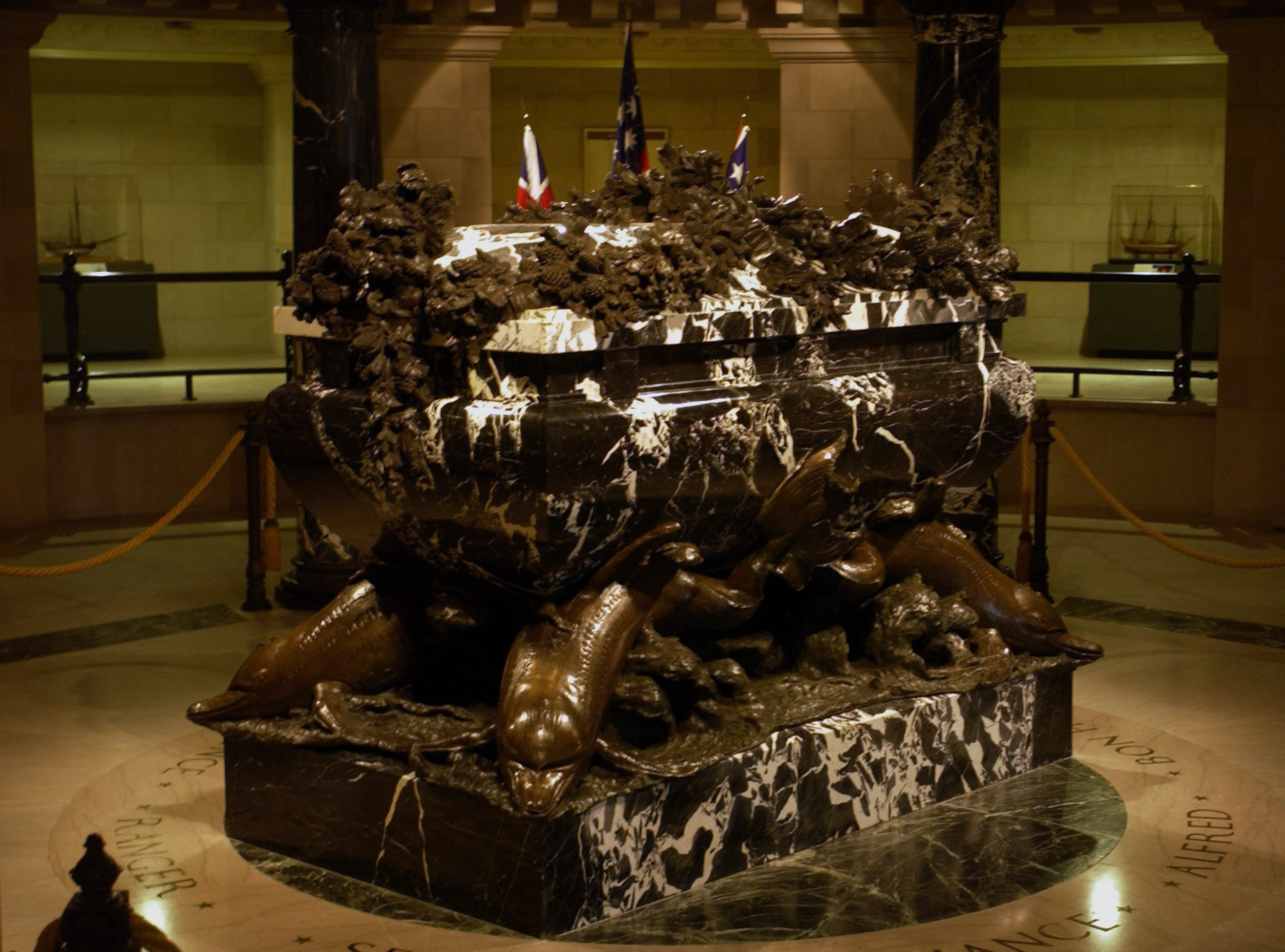 Annapolis, Md. (May 27, 2005) - Father of the U.S. Navy, John Paul Jones, is entombed at the U.S. Naval Academy and is guarded by Midshipman 24-hours a day, three hundred sixty five days a year. Jones is forever immortalized by uttering the words, "I have not yet begun to fight", during the battle between USS Bonhomme Richard and HMS Serapis, off the coast of England in 1779. Jones was buried in a pauper's grave in Paris. More than a century later, his remains were returned to the United States and placed at the academy as a national shrine. U.S. Navy photo by Photographer's Mate 1st Class Kevin H. Tierney (RELEASED)